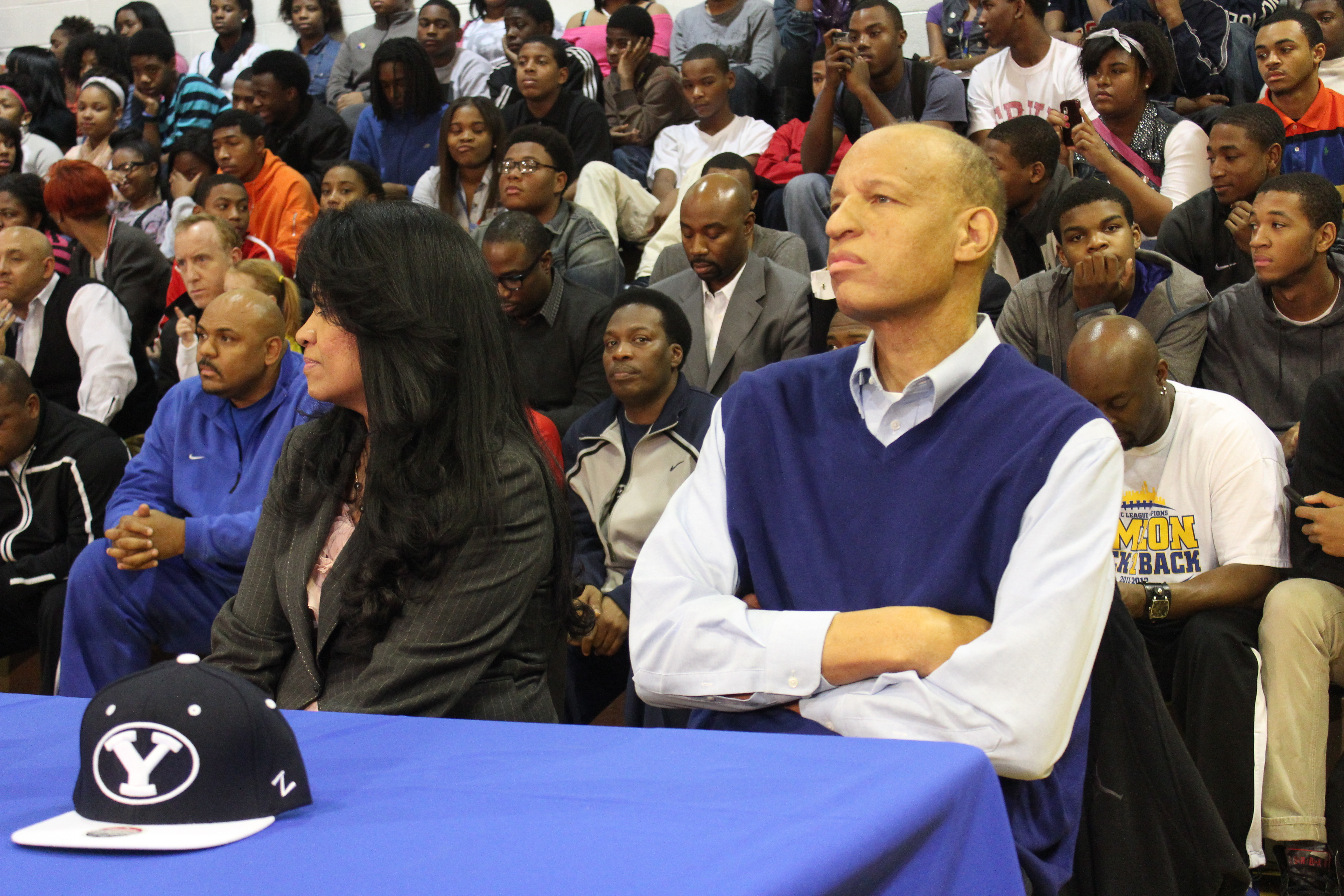 Sonny Parker and wife Lola